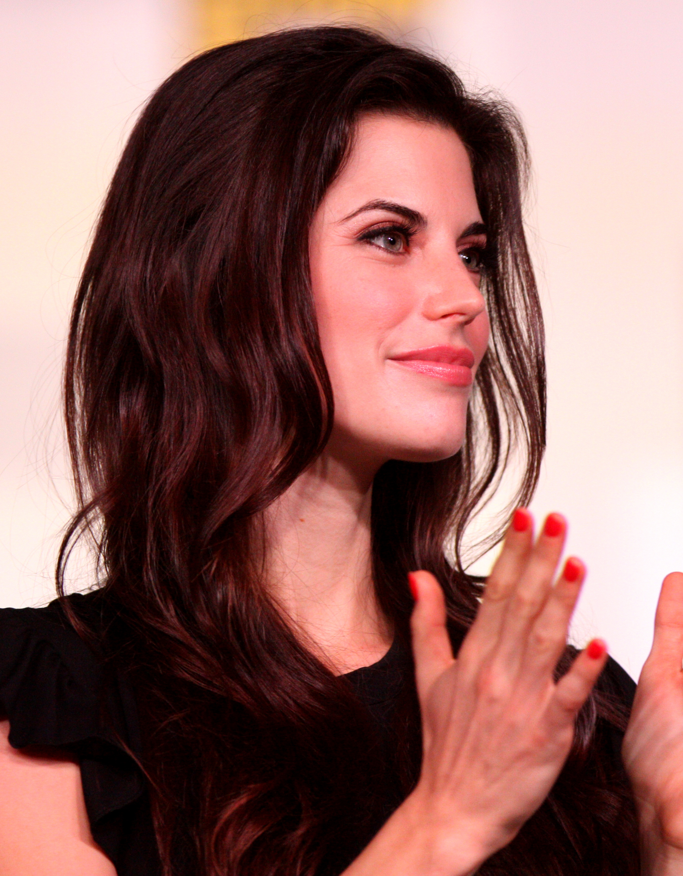 Meghan Ory at the 2012 Comic-Con in San Diego.